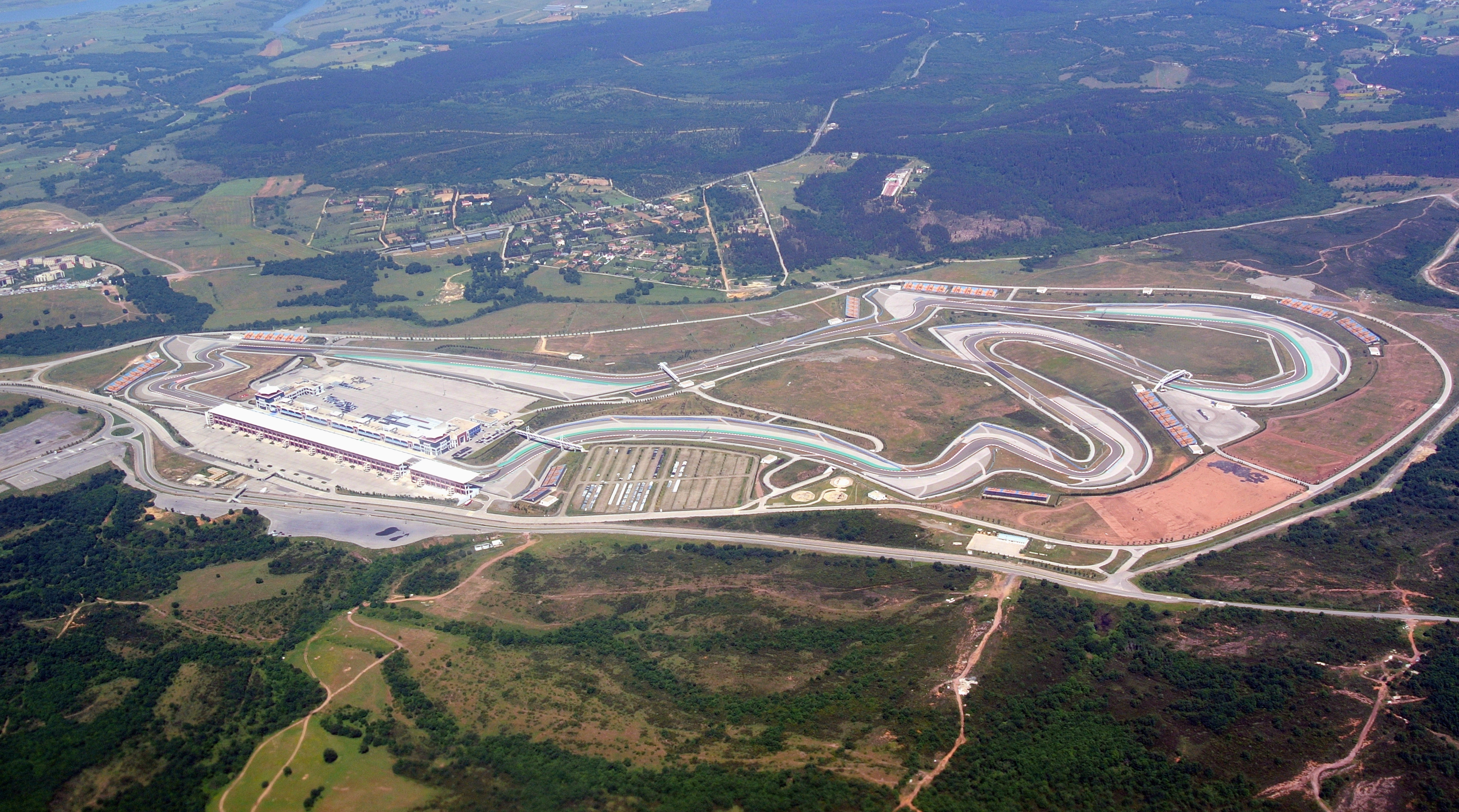 Aerial view of Istanbul Park (racing circuit) situated in Akfırat, a village east of Istanbul, Turkey.